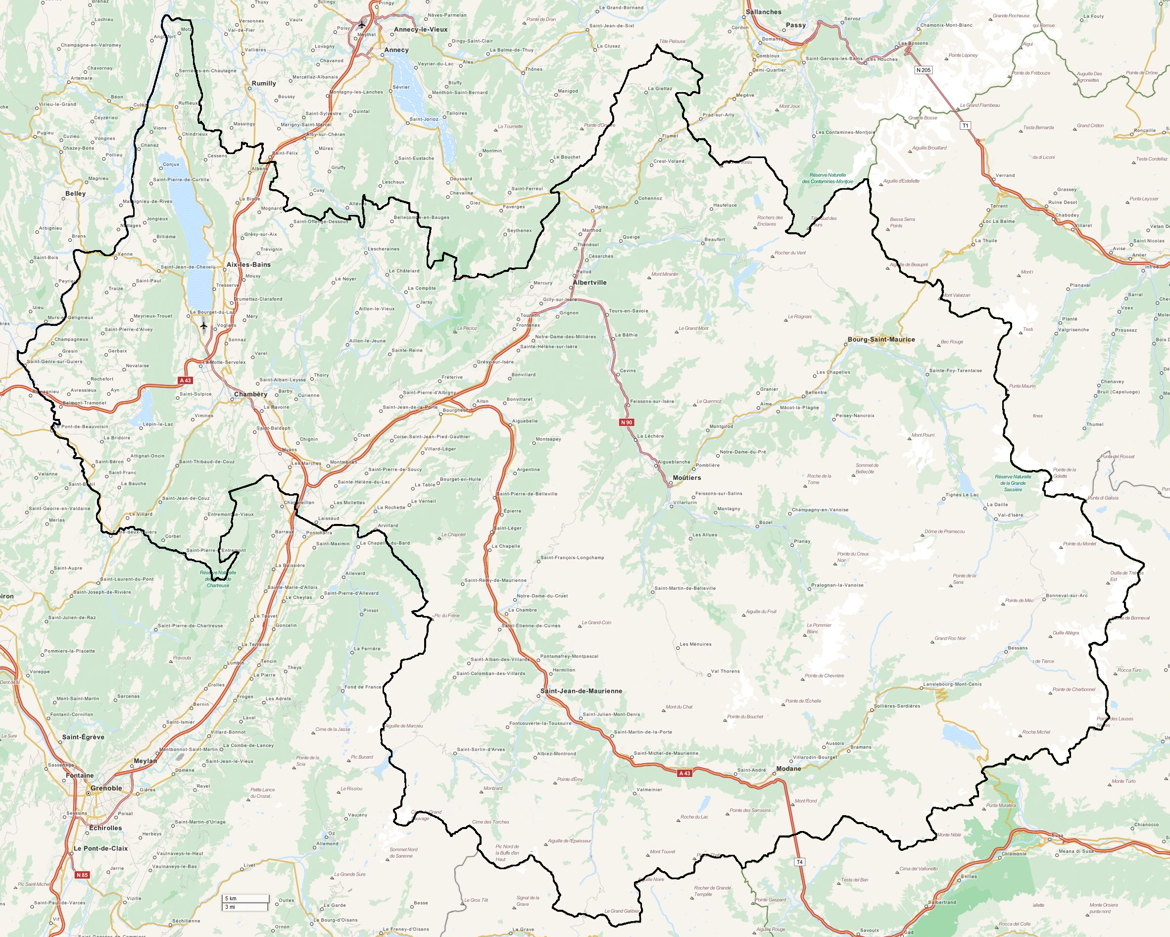 Map of the French department of Savoie with motorways and main roads.